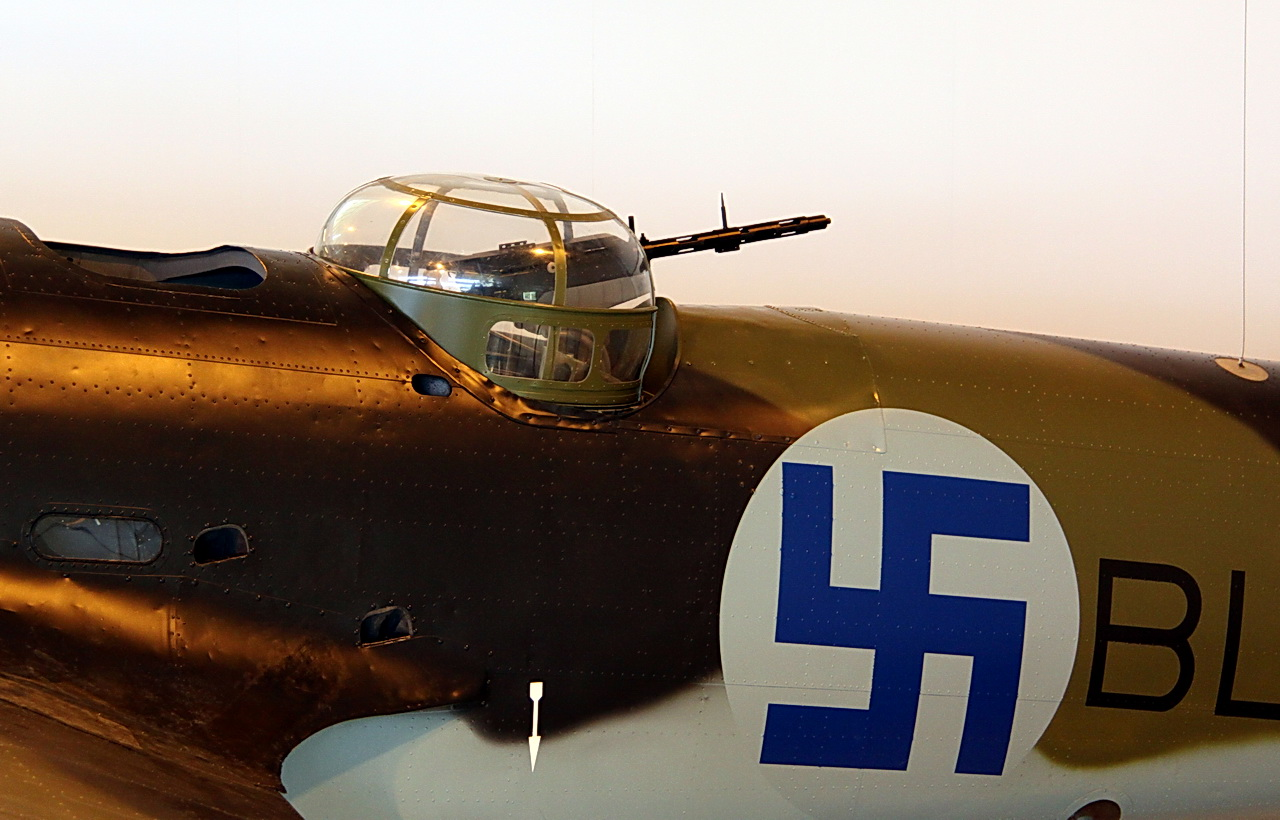 Bristol Blenheim Mk.IV (BL-200) in Aviation Museum of Central Finland.